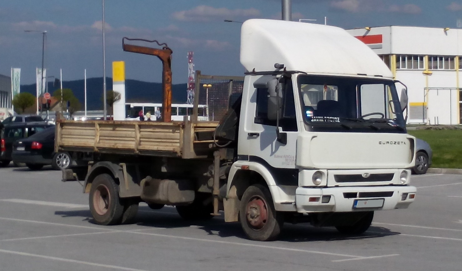 Later model of Zastava's legendary truck Turbo Zeta called Euro Zeta in Kragujevac